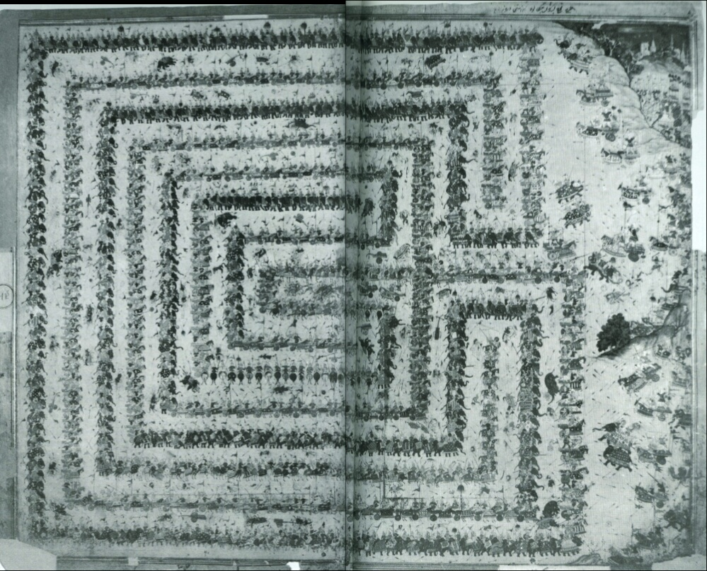 Drona parwa